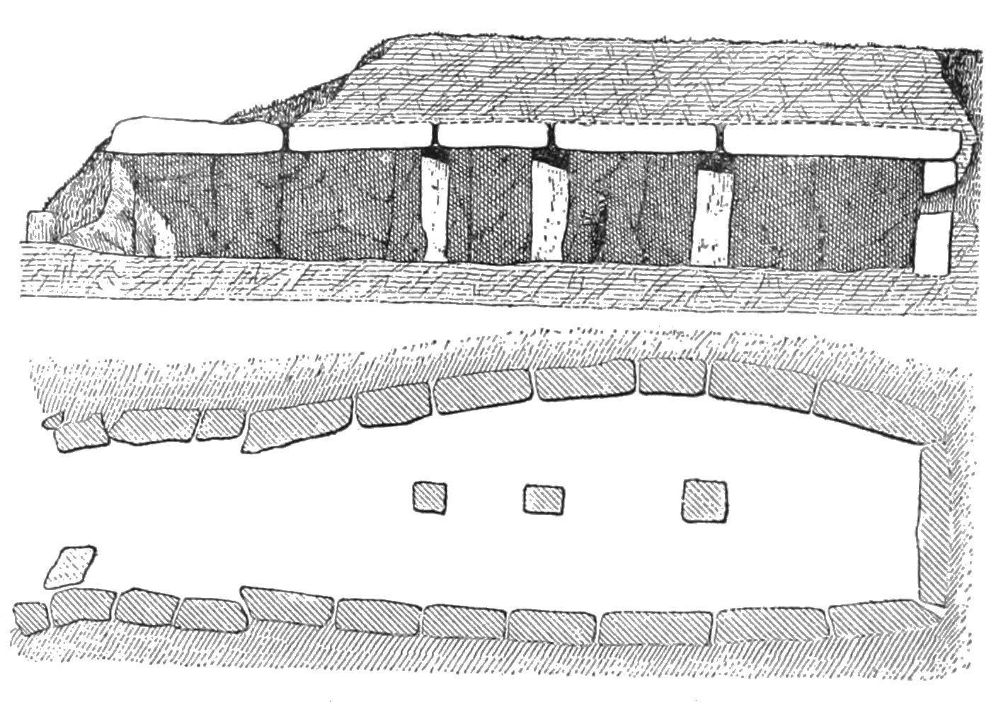 Covered passage of Antequera